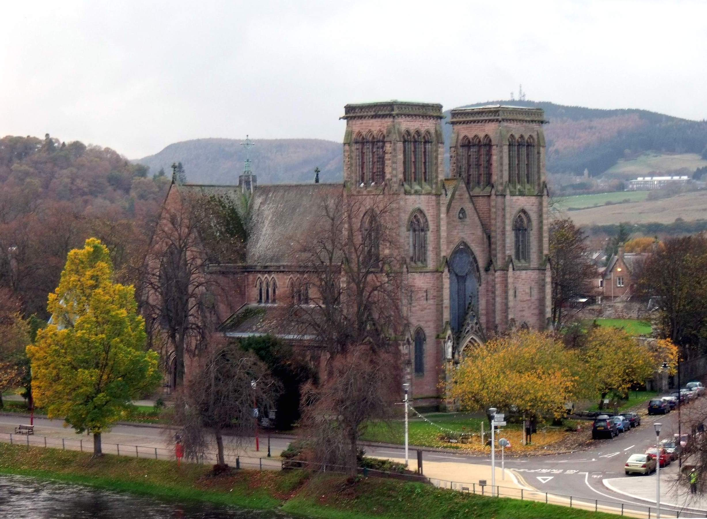 From Castle Hill. The streets of Ness Walk, Ardross Terrace and Ardross Street, converge at the Cathedral.